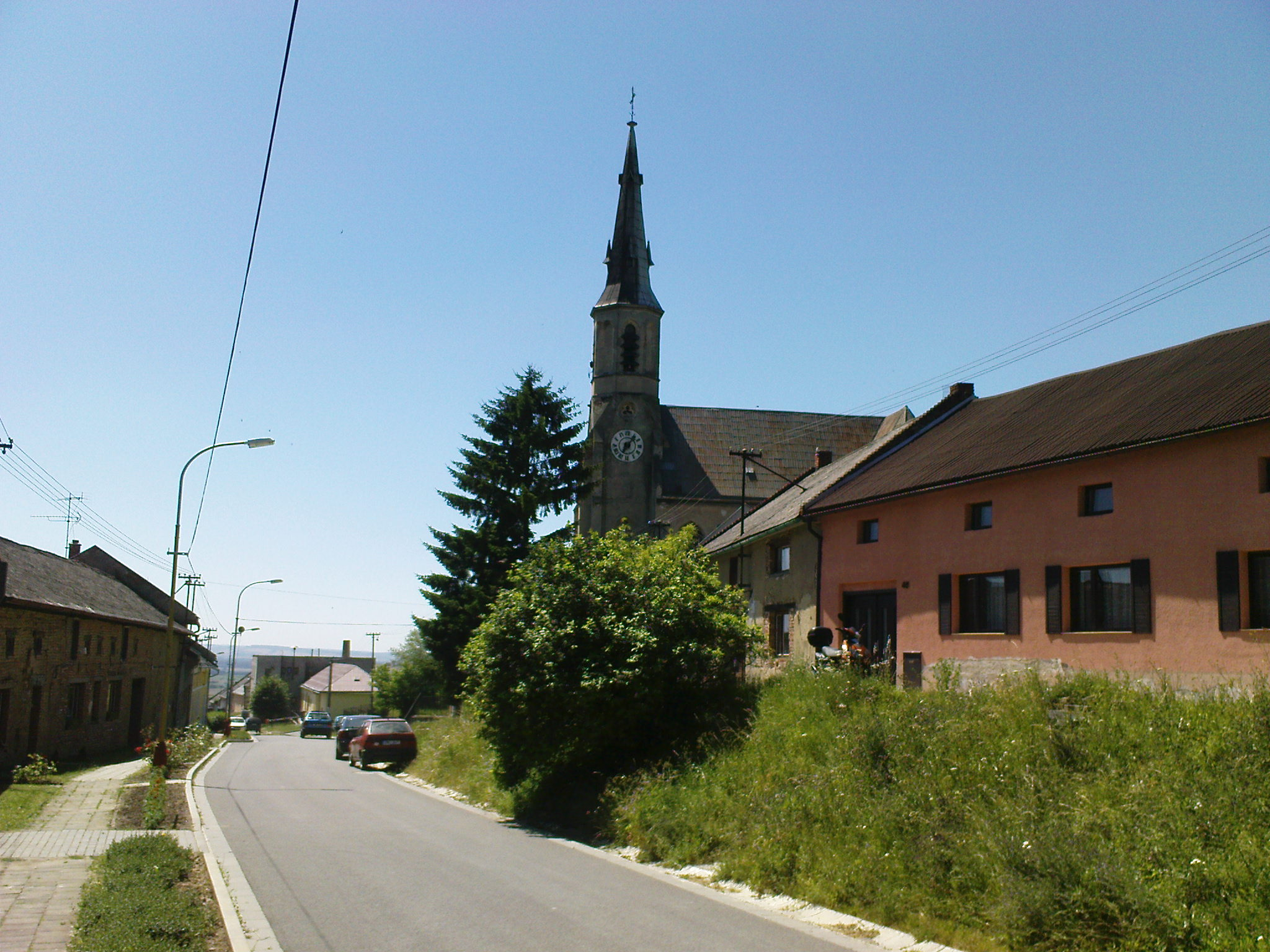 Pseudo-Gothic Catholic Church in Stará Ves (district Přerov, Czechia)